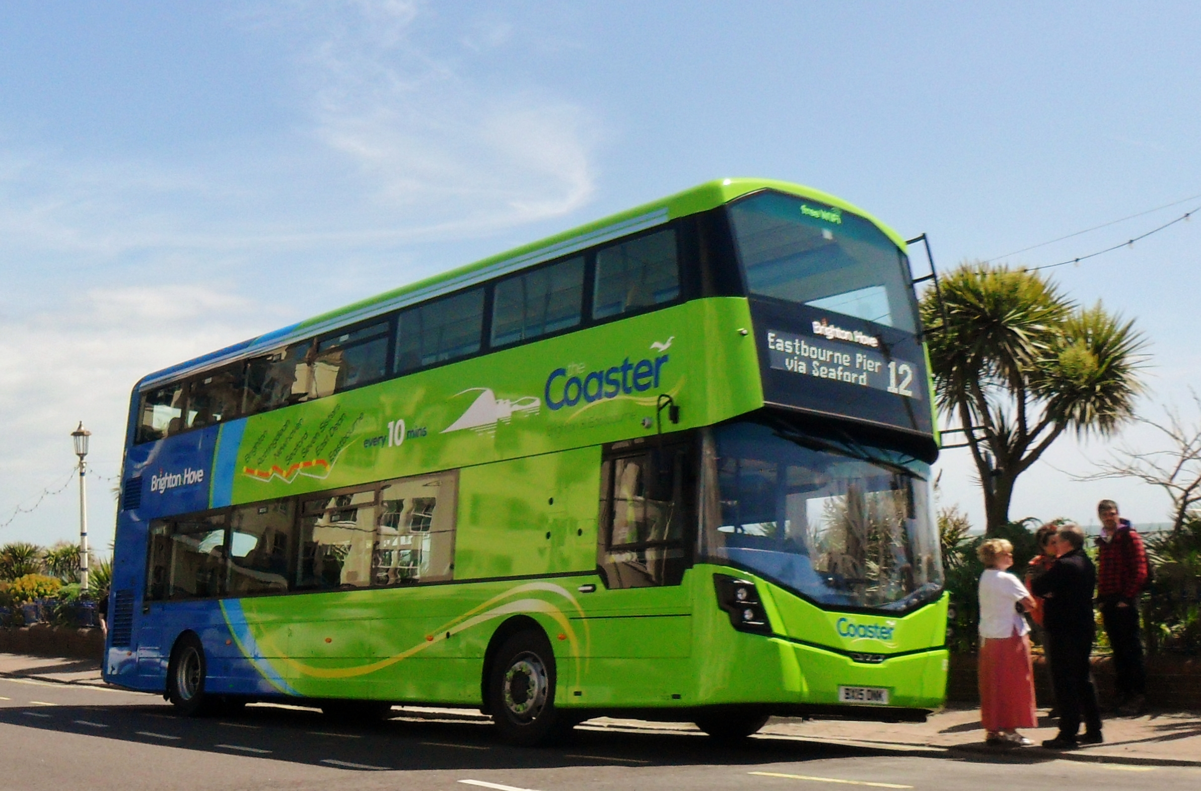 A Brighton & Hove bus on route 12 on the seafront by the pier in Eastbourne, East Sussex. The bus is a Mercedes-Benz with Wright StreetDeck body, registration mark BX15 ONK, fleet number 933, named Jamie Janes. It is in a new blue and green livery branded for the "Coaster" route.